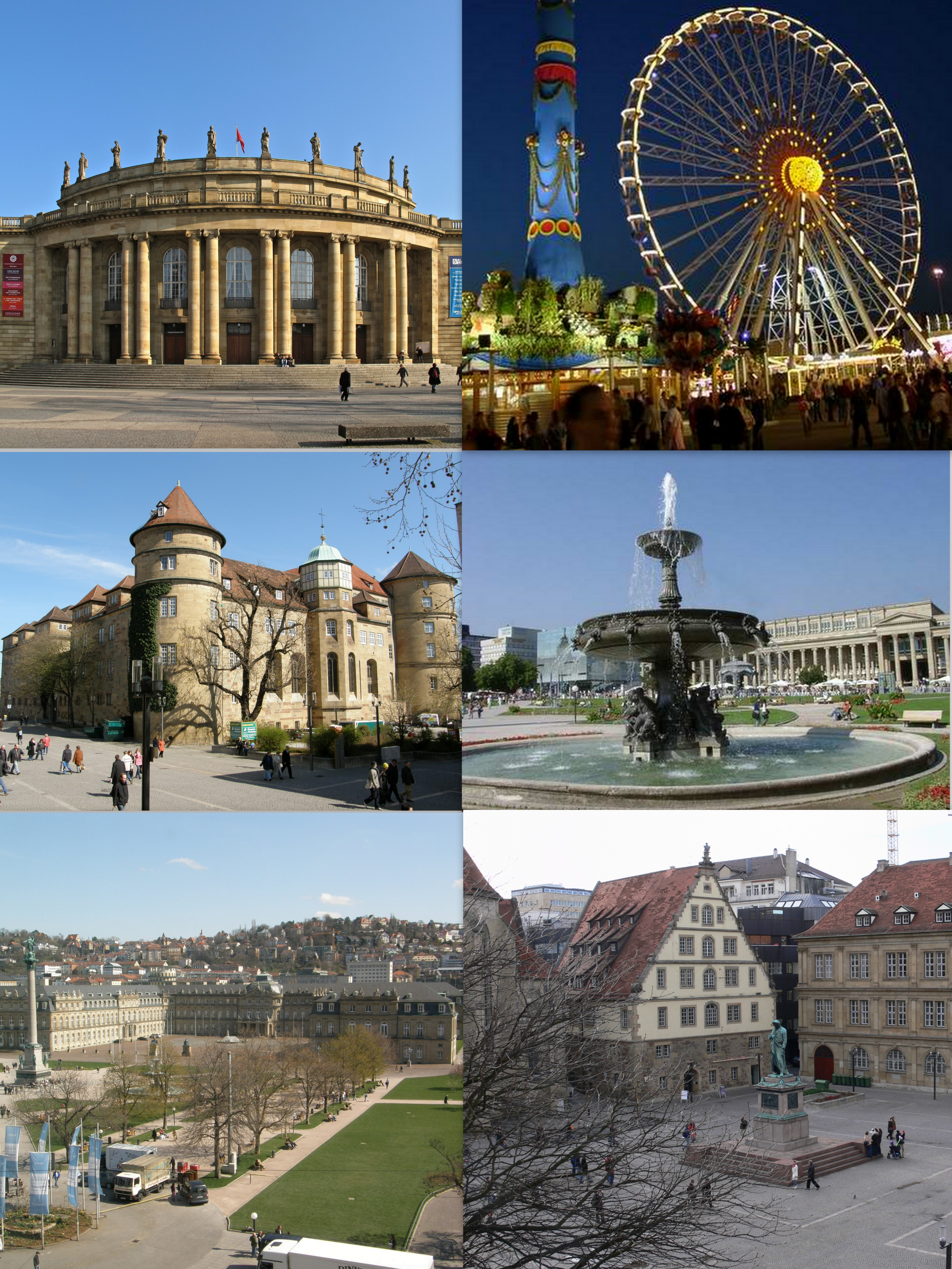 Collage of images of the city of Stuttgart.